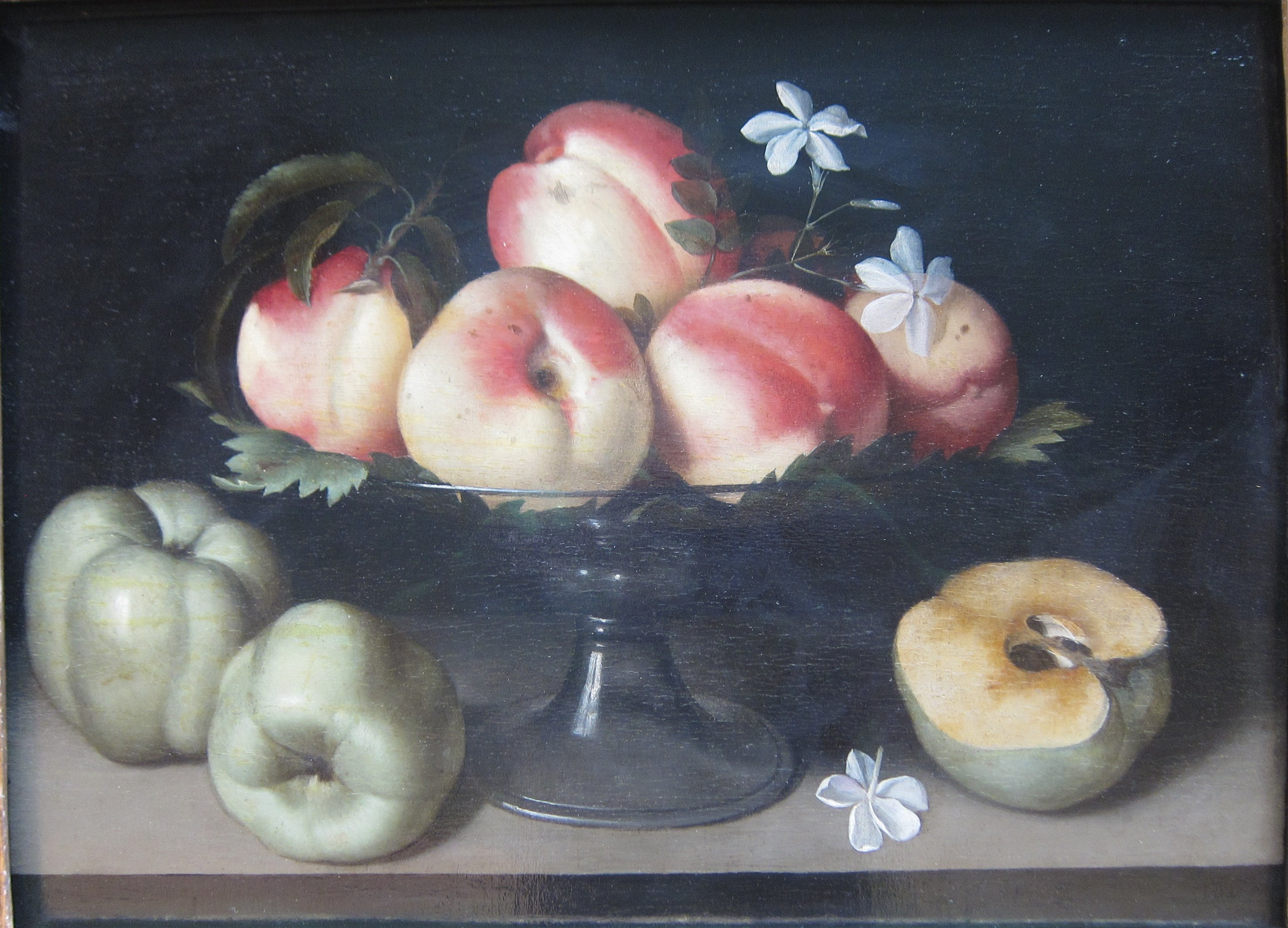 Still Life with Apples and Peaches, oil on wood